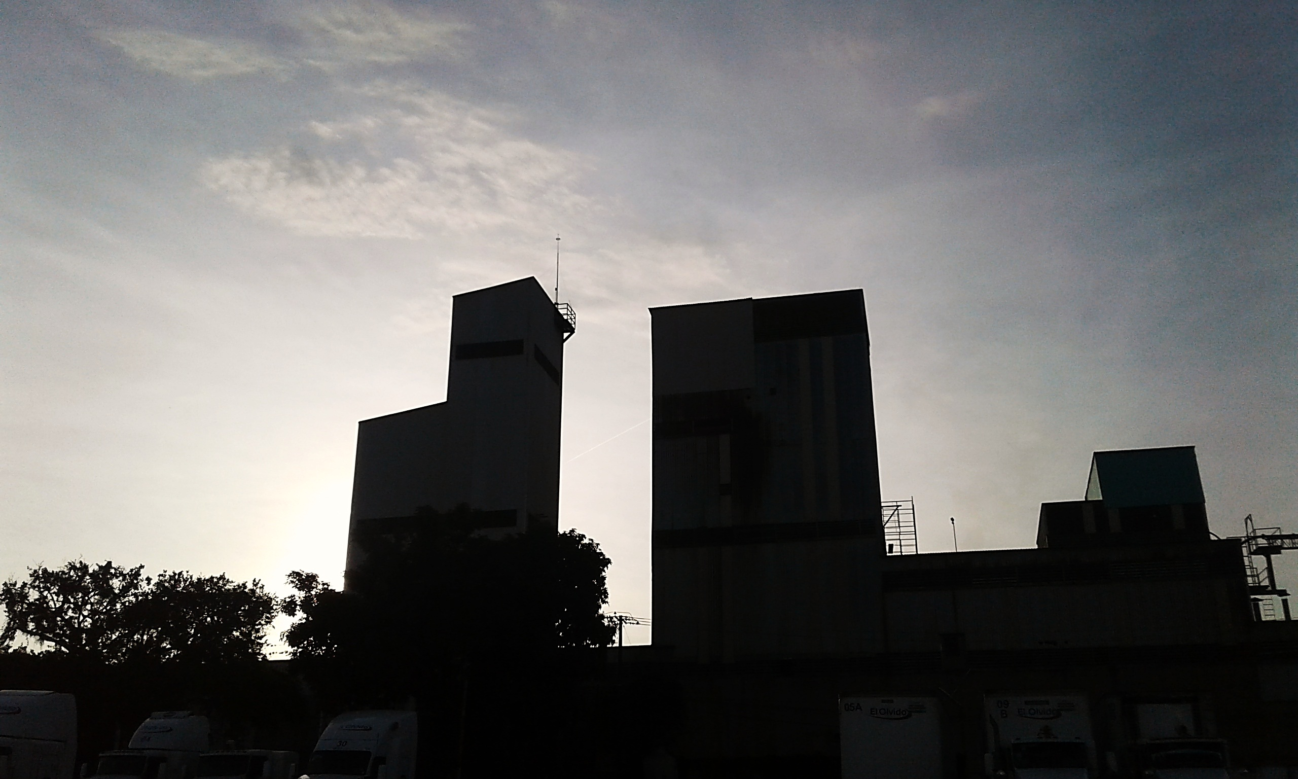 second part of the industrial zone of cordoba